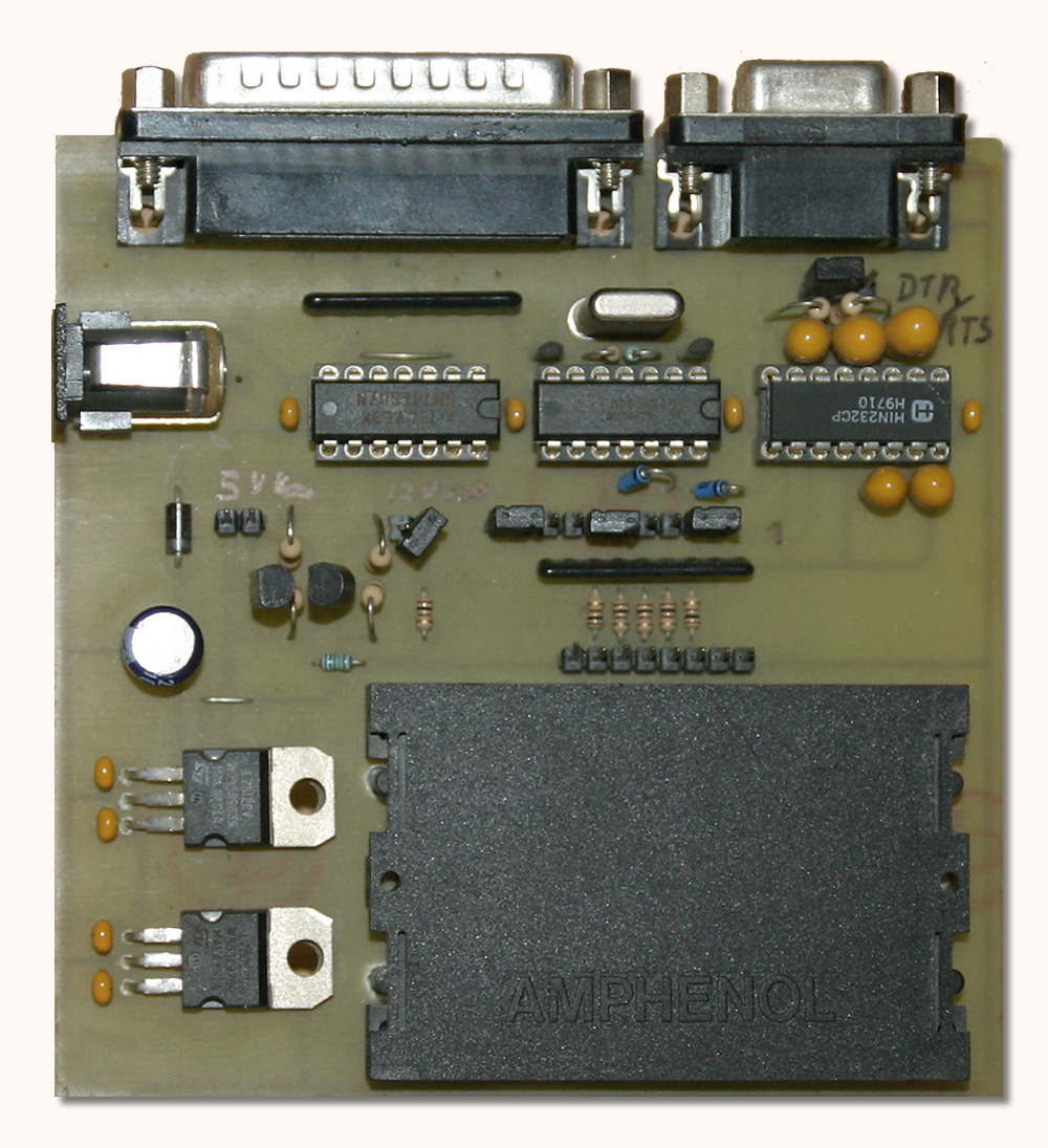 Cardreader especially for reading/writing GSM-cards designed by Hacker Tron in 1998